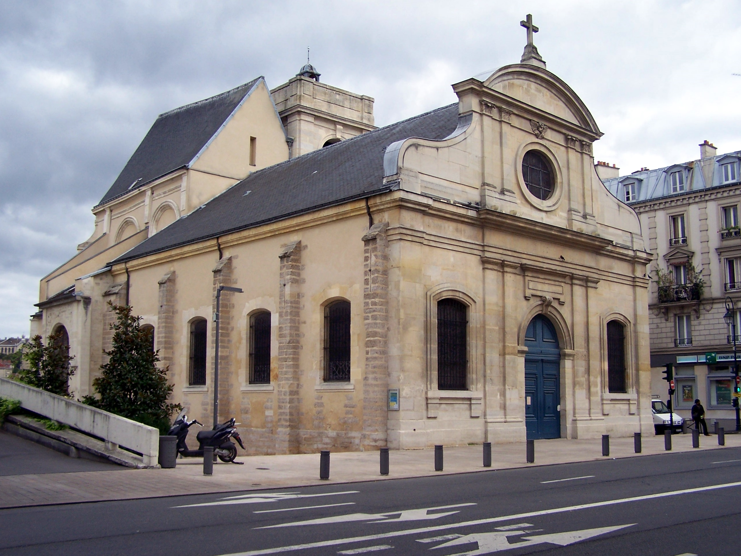 Church Saint-Martin of Meudon (Hauts-de-Seine, France)